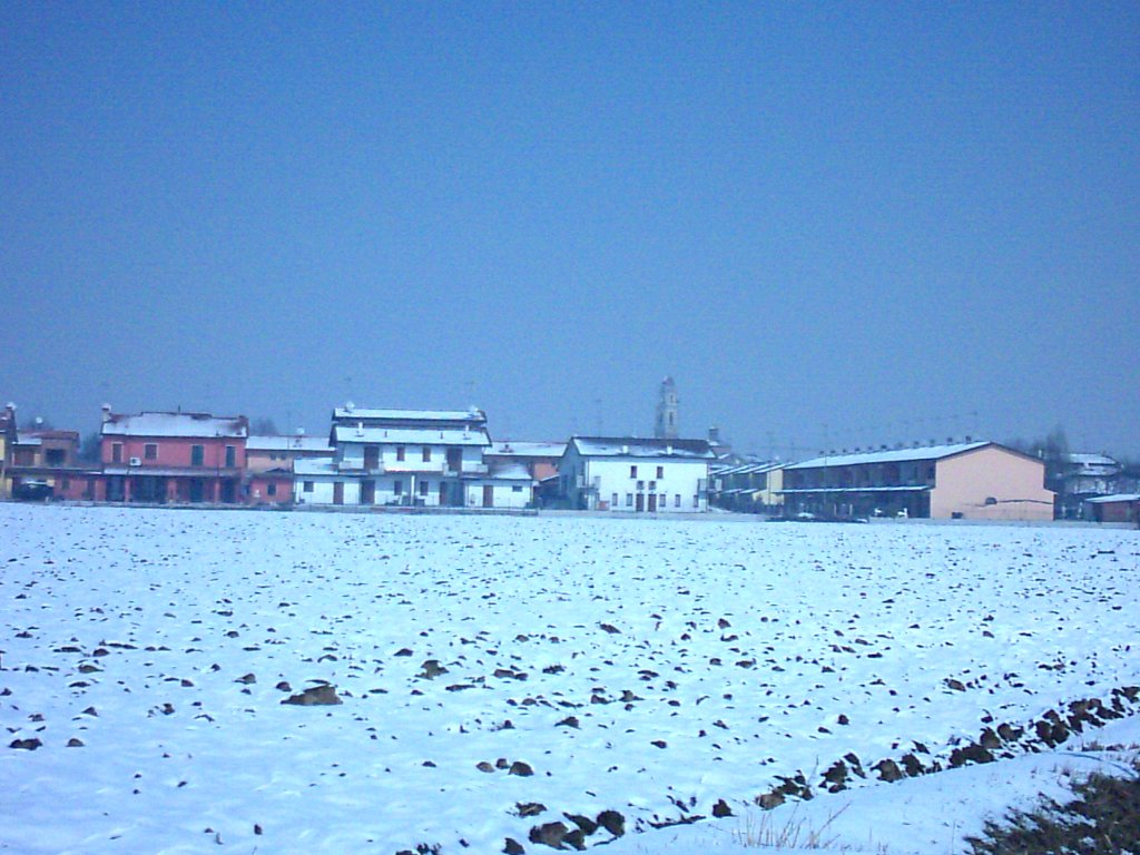 A general view of Castelverde, Italy, taken after a snowfall in early March 2005.